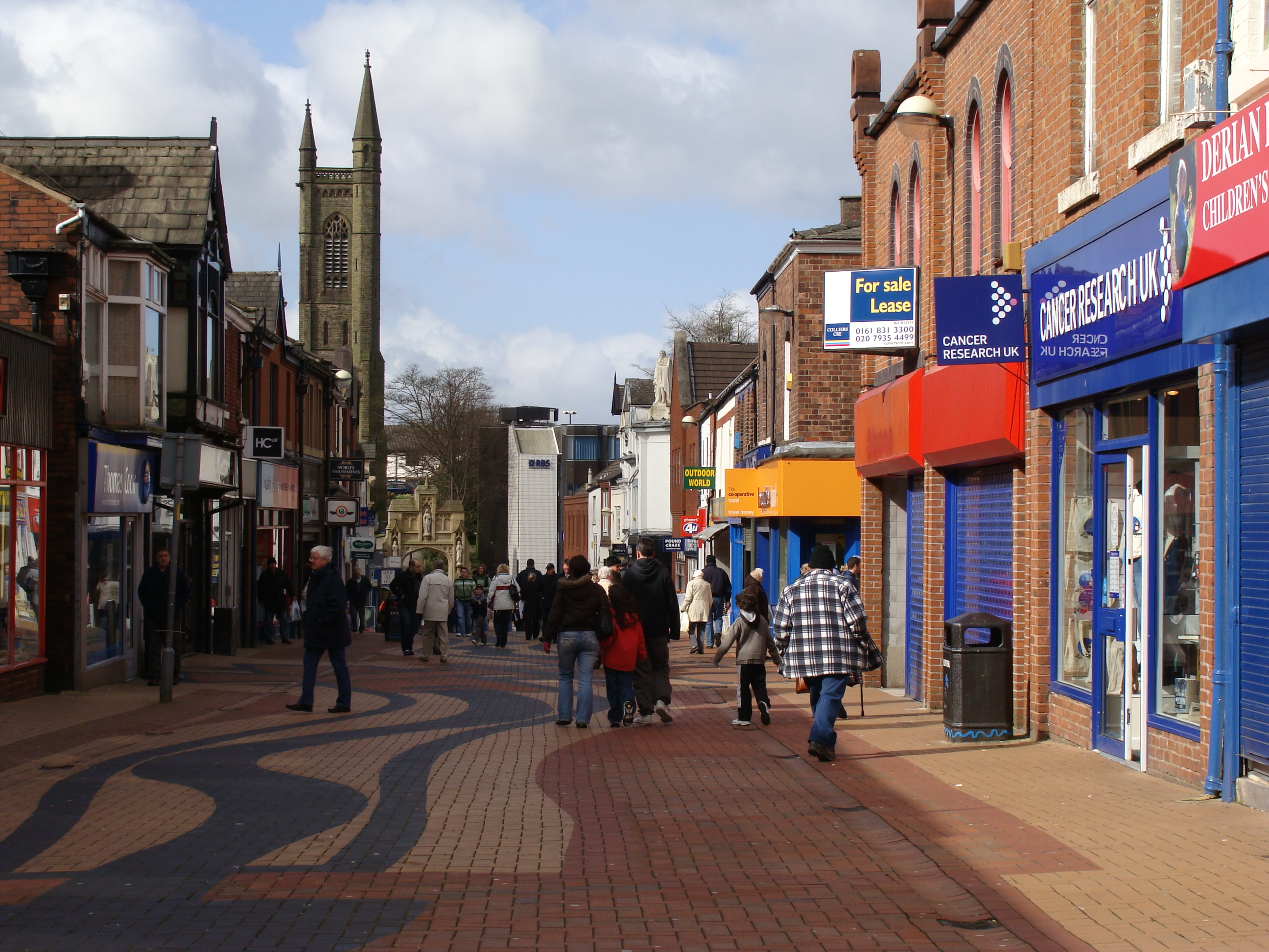 Pedestrianised shopping street in Chorley, Lancashire